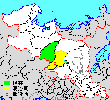 Location Map of Kyotamba in Kyoto-fu, Japan